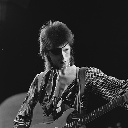 David Bowie, shooting his video for Rebel Rebel in AVRO's TopPop (Dutch television show) in 1974